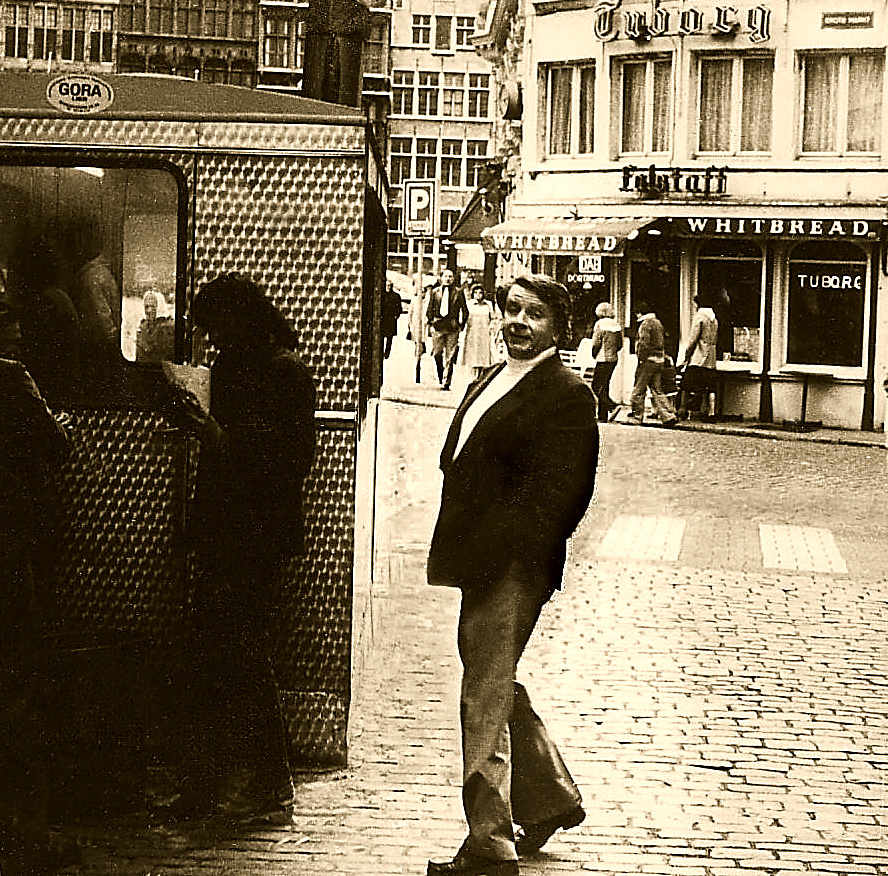 Belgian author Hubert Lampo, Antwerp, 1982